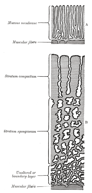 Diagrammatic sections of the uterine mucous membrane: A. The non-pregnant uterus. B. The pregnant uterus, showing the thickened mucous membrane and the altered condition of the uterine glands. (Kundrat and Engelmann.)